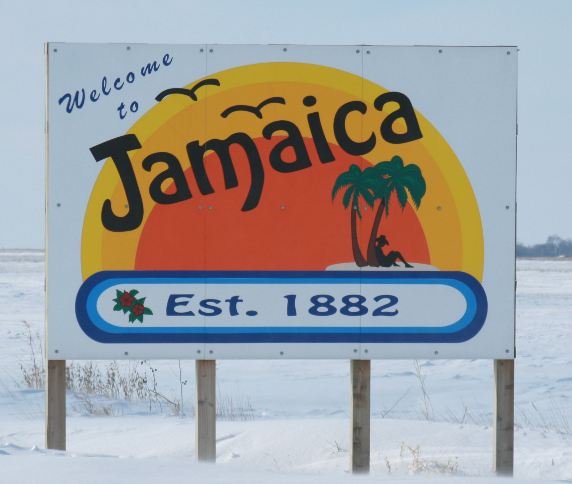 Sign along State Highway 141 at the junction leading to Jamaica, Iowa